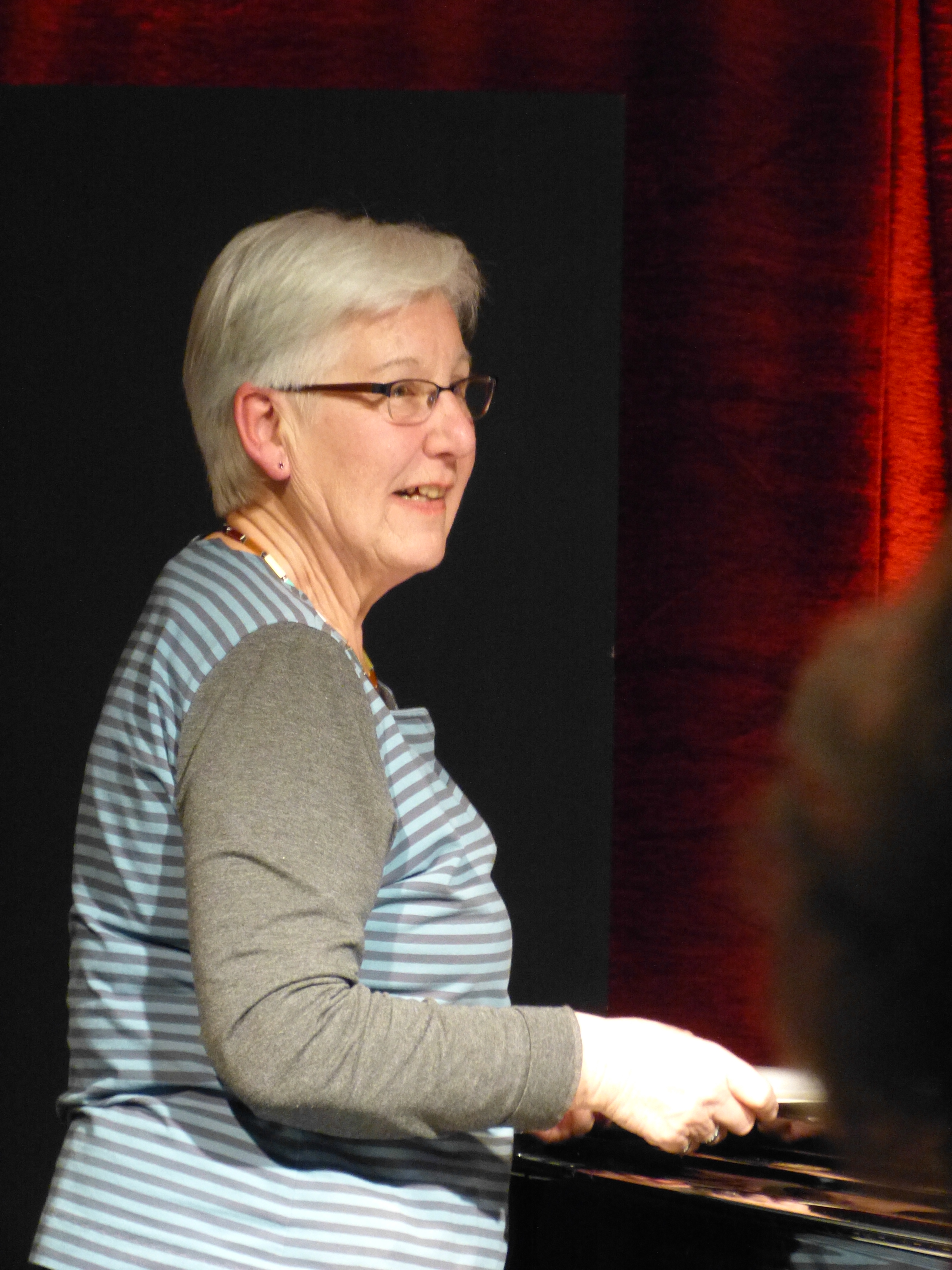 Irene Schweizer in the concert at Loft (Cologne), Germany, February 7th, 2014